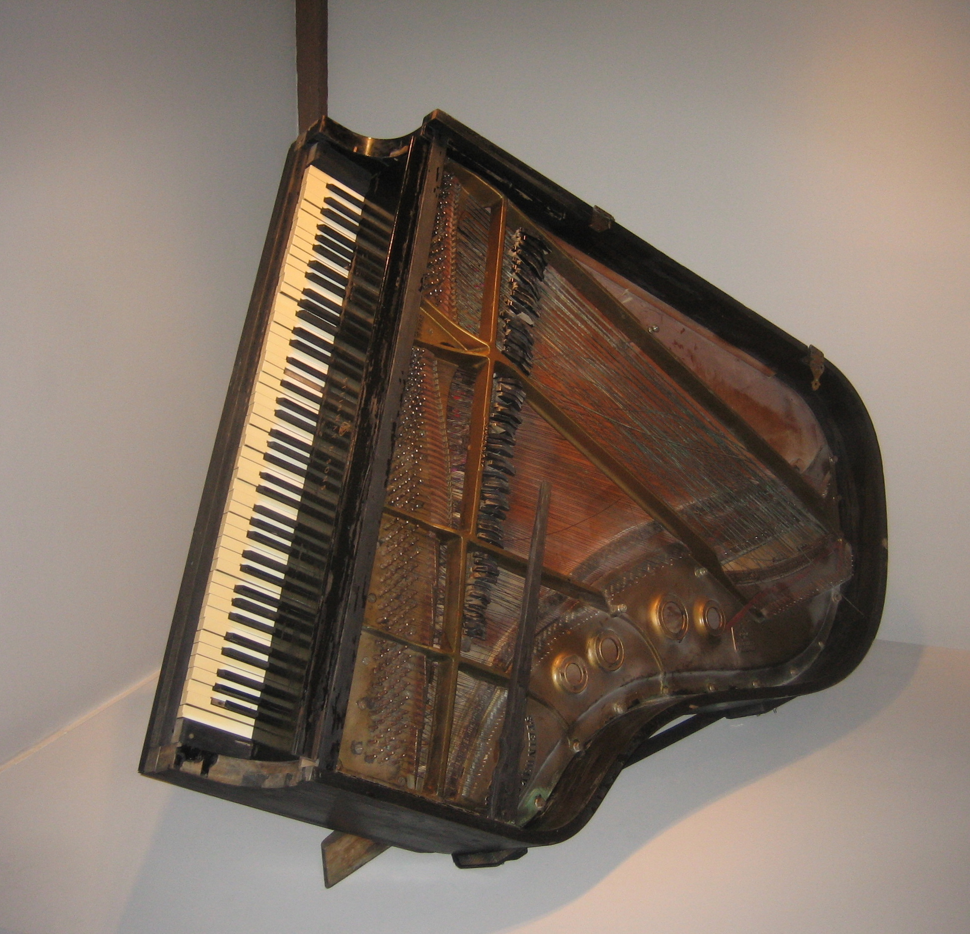 Fats Domino's grand piano. Rescued and partially reassembled from the post-Hurricane Katrina muck of Domino's home in the Lower 9th Ward, and now on exibit in the French Quarter at the Louisiana State Museum collection, Cabildo building.